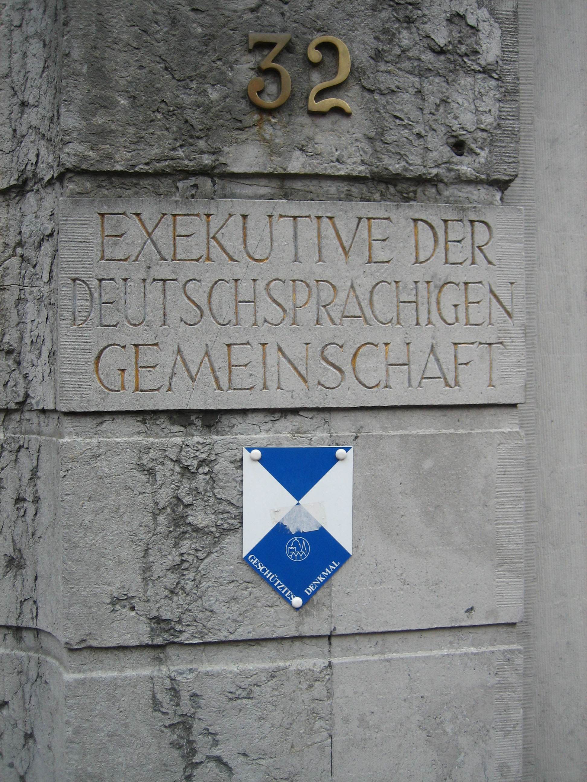 This picture was taken on 06/17/05 in front of the Council of the German Speaking Community in Belgium, which is located in the city of Eupen. The words "Exekutive der deutschsprachigen Gemeinschaft" ("Council of the German Speaking Community") are etched into the pillar, which lines the metal gate leading to the courtyard of the two-story council. Beneath the inscription is a plackard which reads "Geschütztes Denkmal" ("monumental protection"). Structures bearing this seal may not be destroyed or modified without permission, as they may be of historical value.